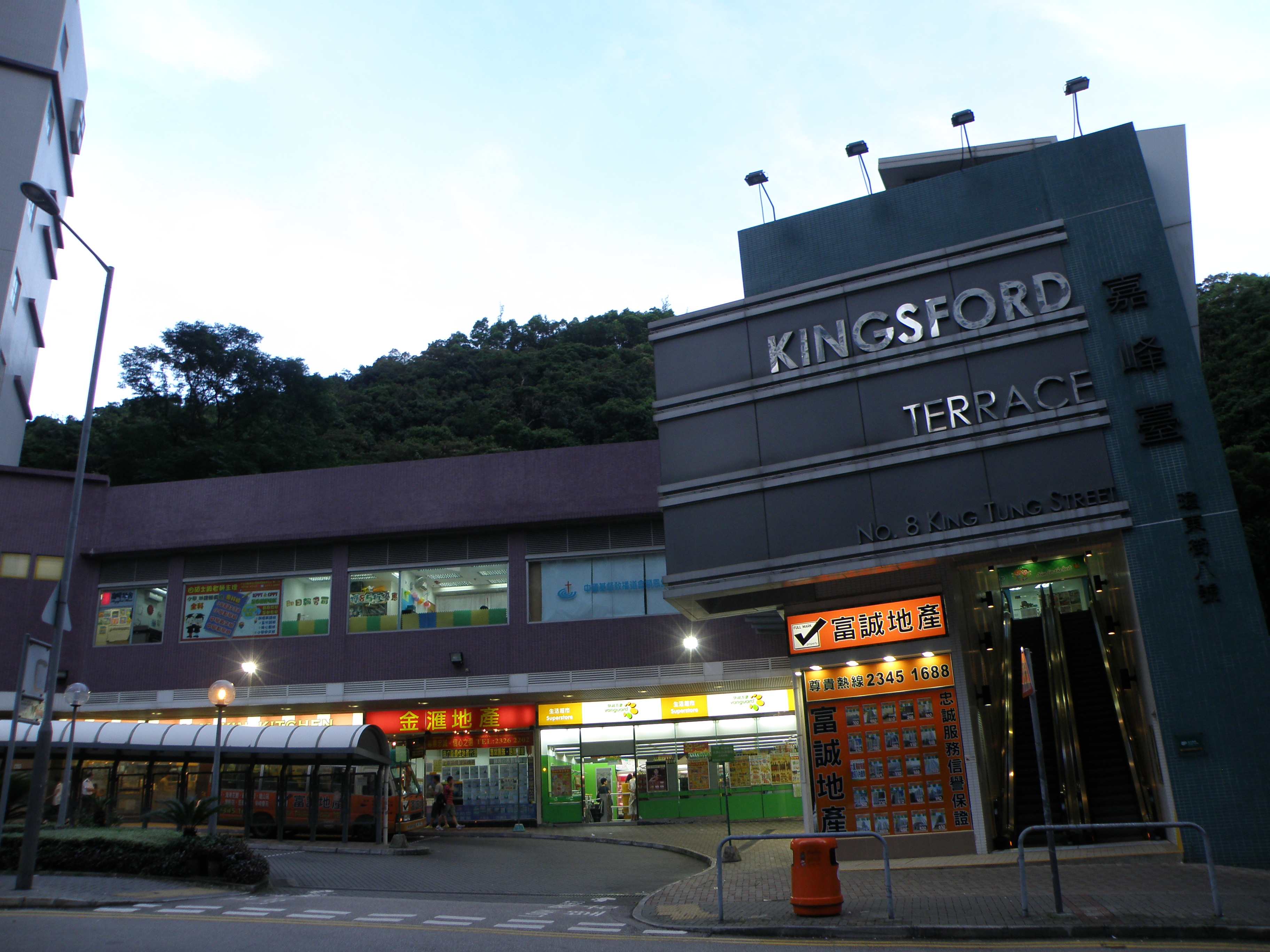 Kingsford Terrace (shopping mall), Hammer Hill, Hong Kong.